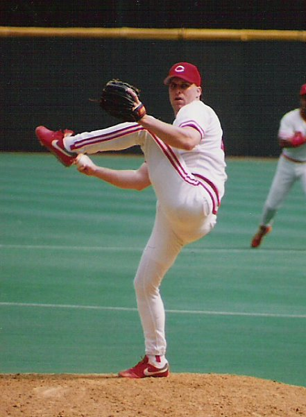 Rob Dibble, pitching for the Cincinnati Reds in 1991, by Rick Dikeman. 20:06, 10 October 2005 . . Rdikeman . . 441×601 (46 KB)